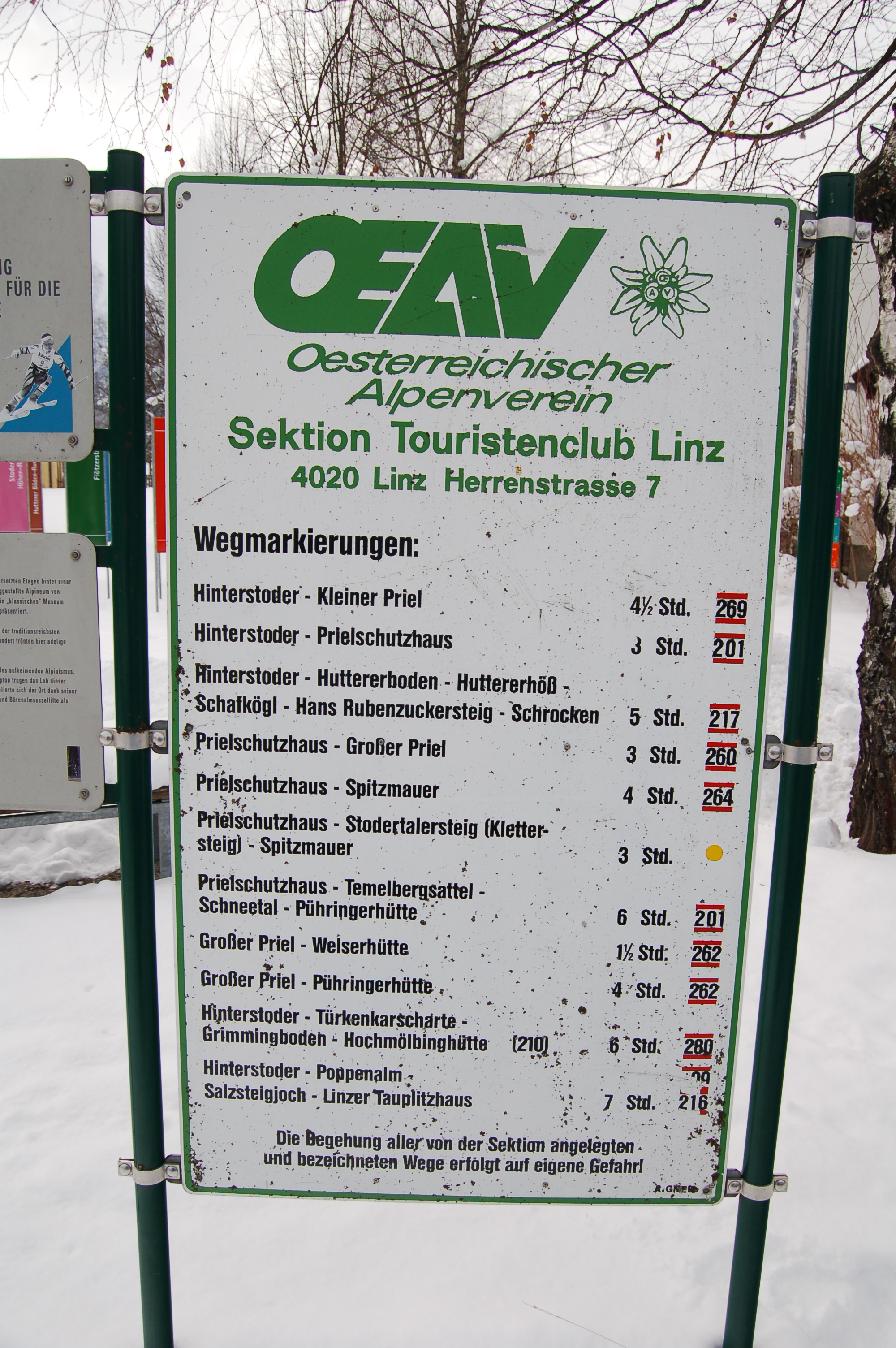 Hiking sign in Hinterstoder, Upper Austria.